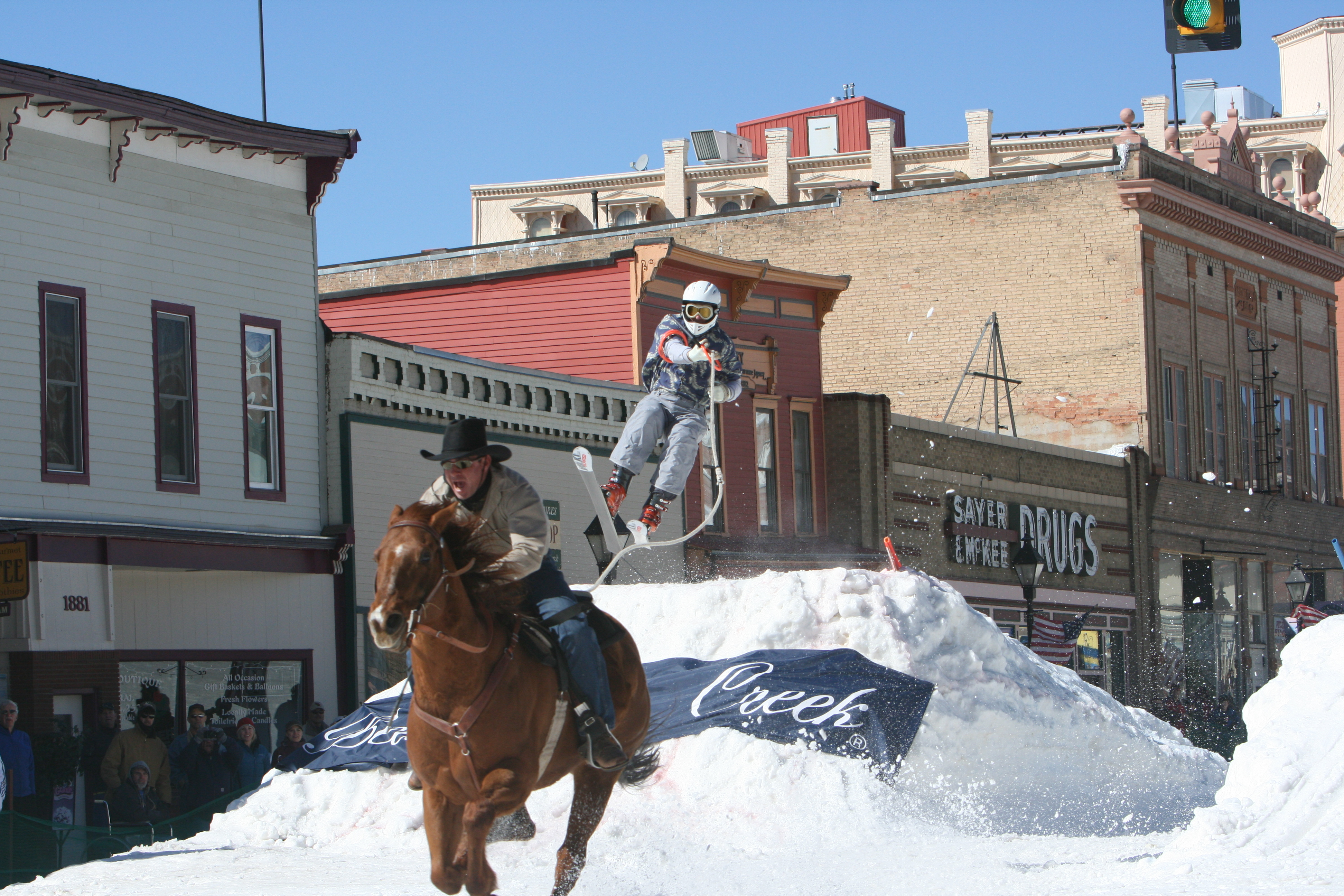 A Leadville Ski Joring team at the 2009 event in Leadville, Colorado.